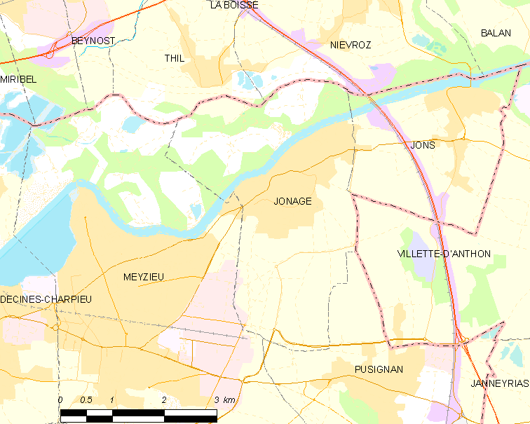 Map of French municipality